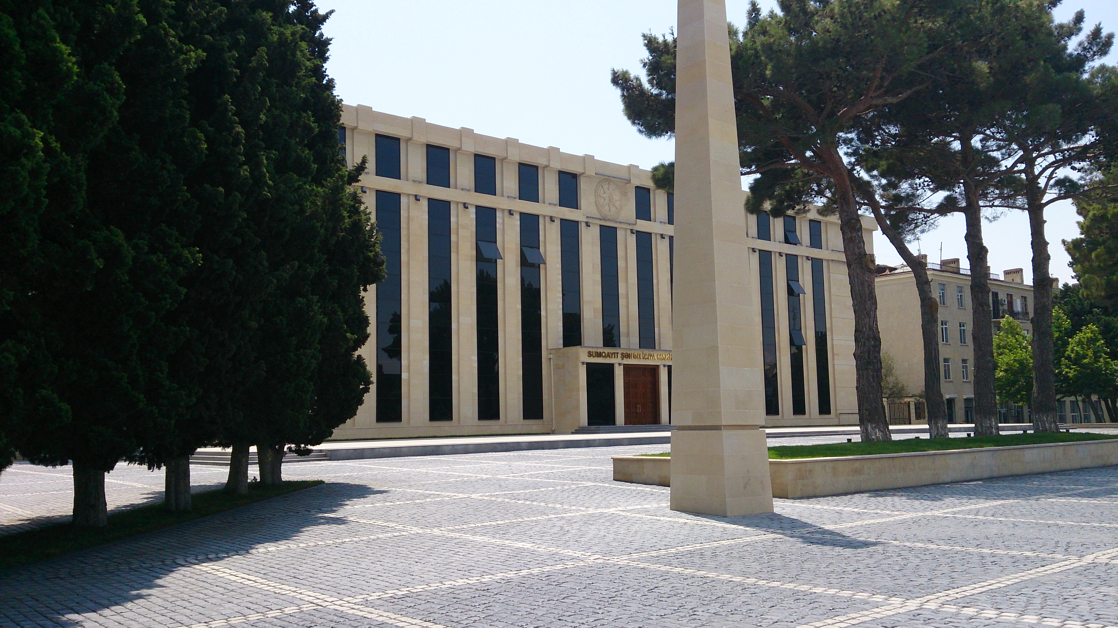 Sumqayit City Municipiality building